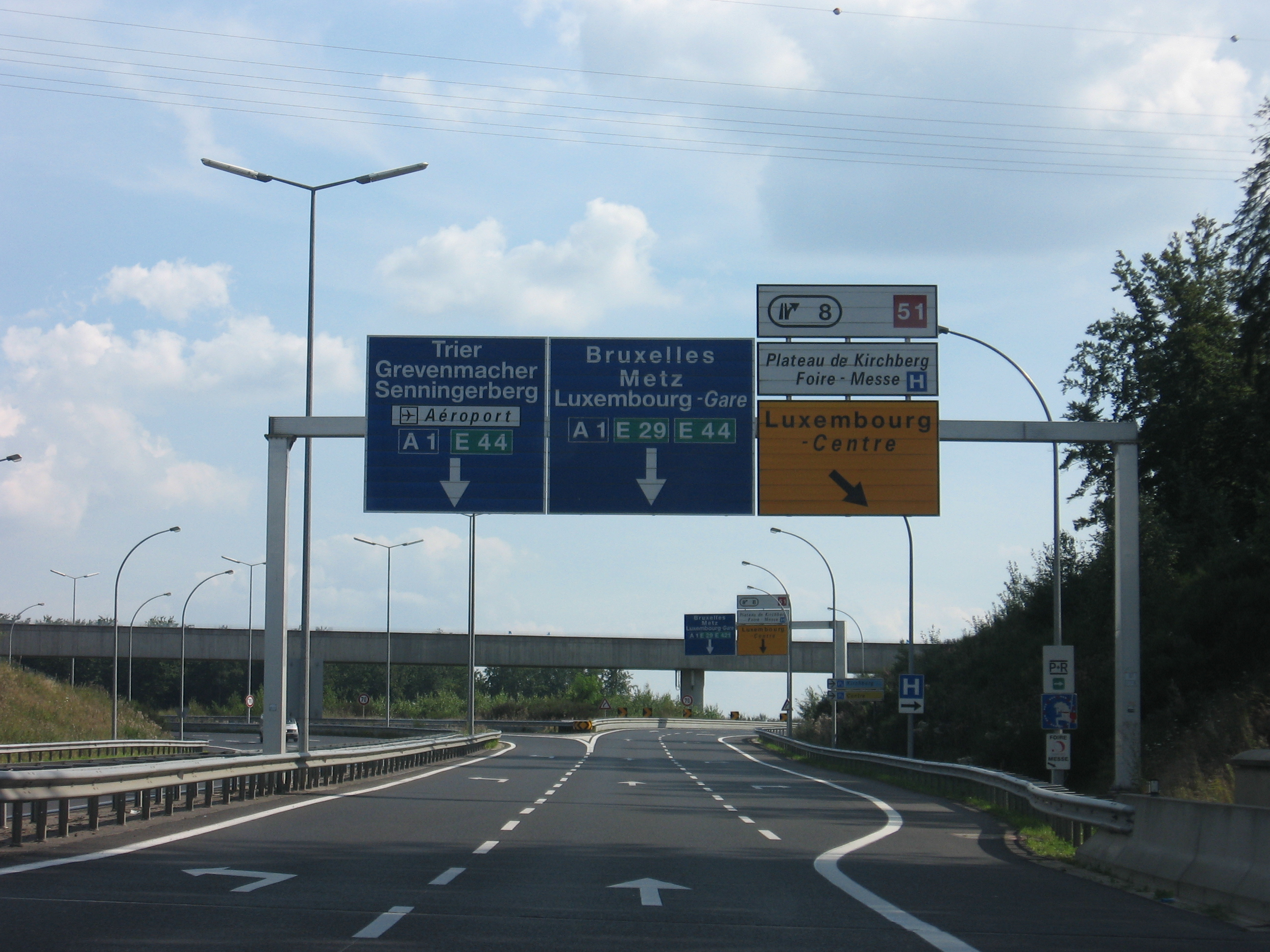 Croix Grünewald, coming from A7 (Luxemburg)